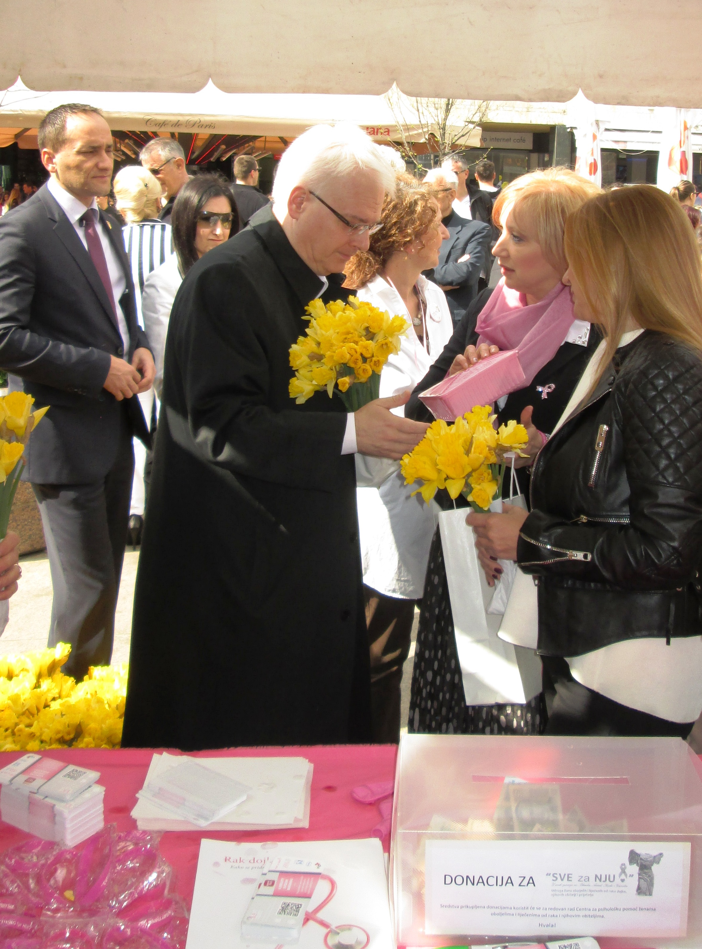 The president of Croatia, dr. Ivo Josipović during manifestation of fighting cancer